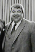 California politician William P. Campbell